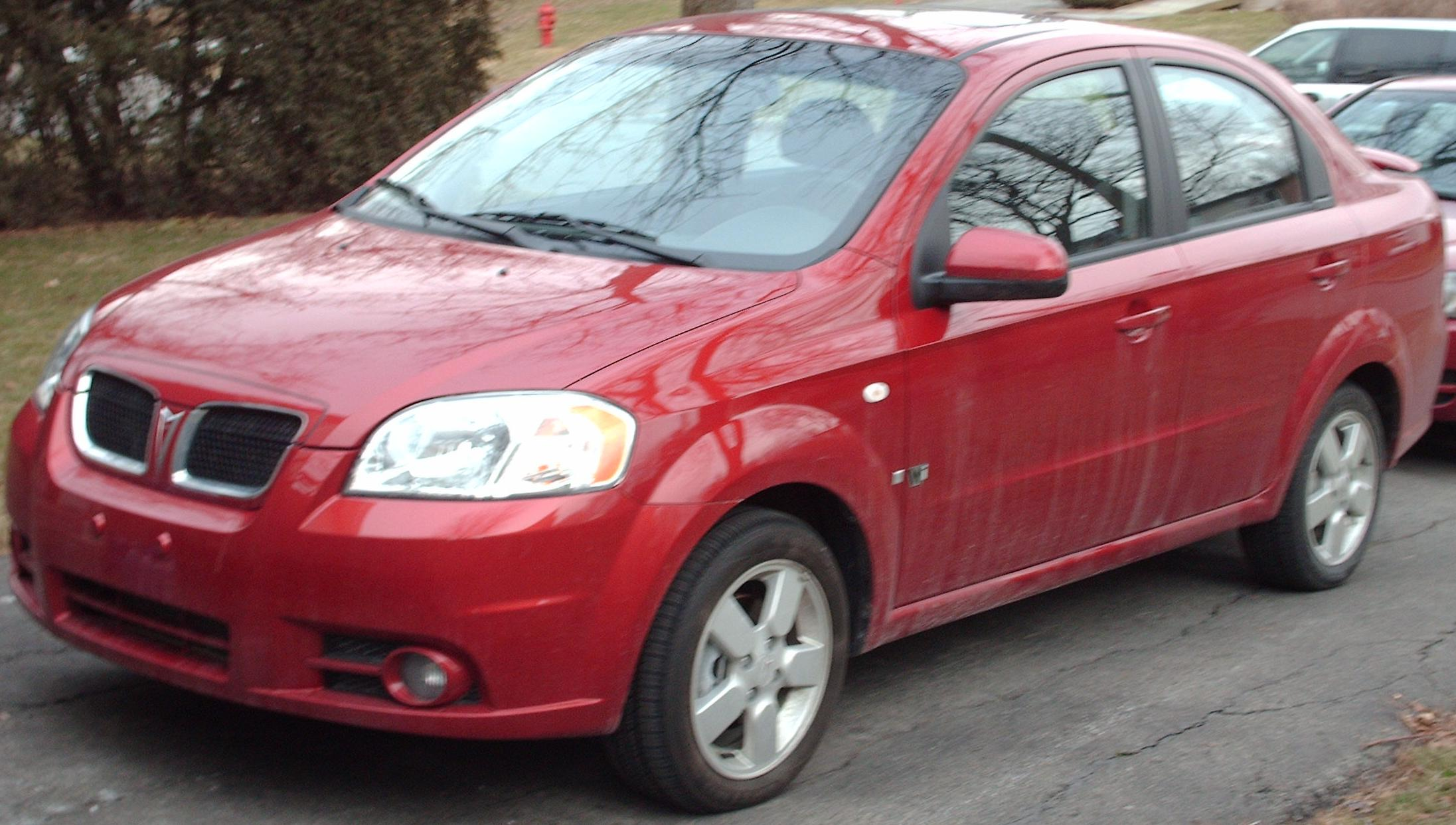 2007 Pontiac Wave photographed in Montreal, Quebec, Canada.